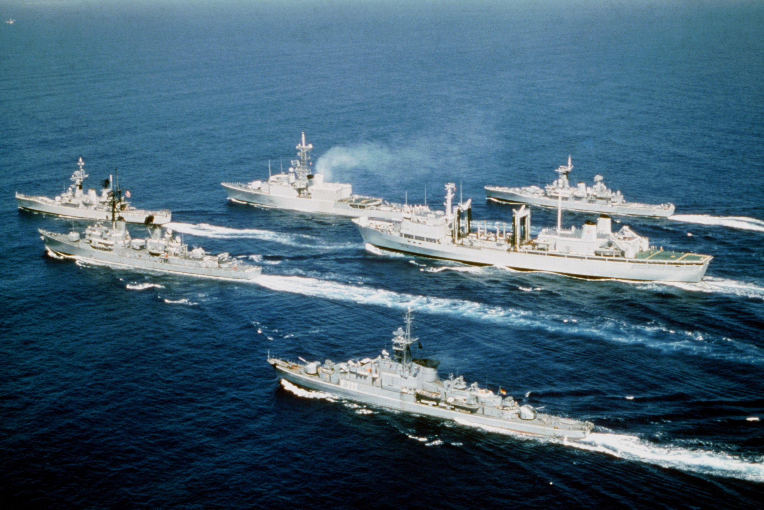 The ships comprising the Standing Naval Force Atlantic underway on 1 September 1982. The ships are, from top to bottom: HMS Danae (F47), HMCS Iroquois (DDH 280), HMCS Protecteur (AOR 509), Hr.Ms. Van Nes (F805), USS Sellers (DDG-11) and Augsburg (F 222).